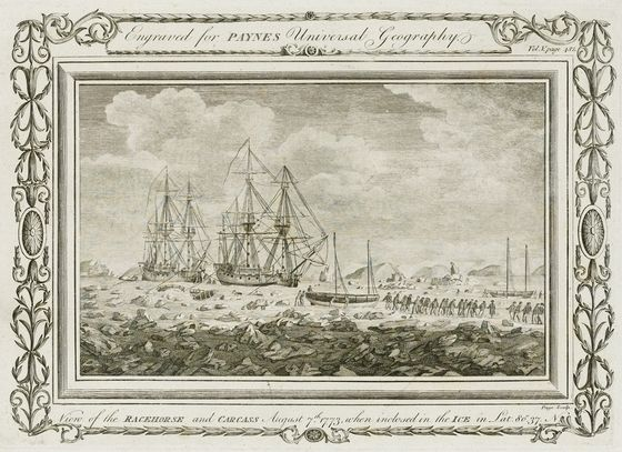 'View of the Racehorse and Carcass August 7th 1773, when inclosed in the ice in Lat. 80o 37.N. Engraved for Payne's Universal Geography Vol V Page 481' Under the command of Captain the Hon. Constantine Phipps, the ‘Racehorse’ and ‘Carcass’ set sail in June 1773 to find ‘a passage by, or near, the North Pole’ north of Russia. By early August the ice had closed about the ships north of Spitsbergen and preparations were made to abandon them and escape in the boats. However, a shift in the wind broke up the ice and freed the ships. Nelson was a midshipman in the ‘Carcass’ on this expedition.